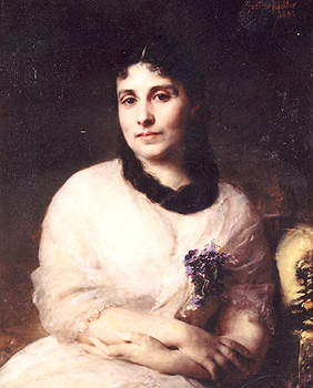 Cornelie Richter, née Meyerbeer (1842-1942). Portrait by her husband Gustav Richter